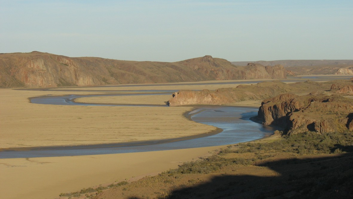 Deseado ria near the end of the Deseado river.